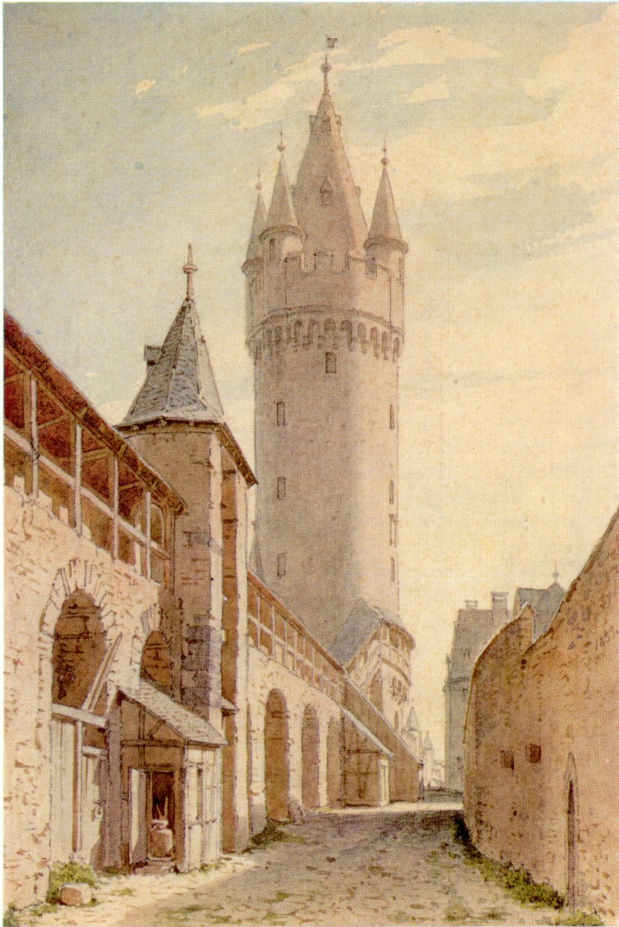 Frankfurt am Main, Germany The Eschenheimer Tor and part of the ramparts